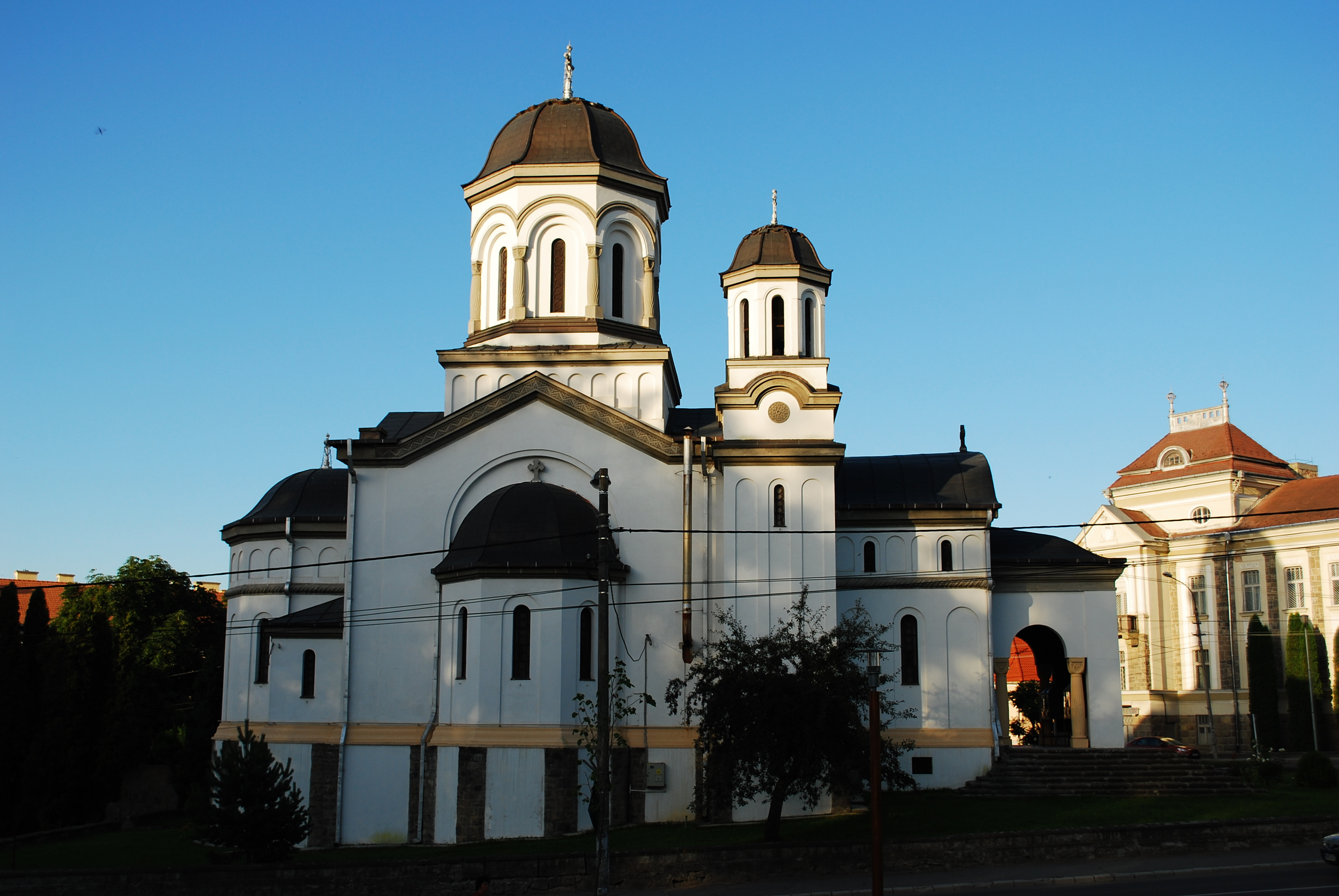 The Romanian Orthodox Cathedral in Miercurea Ciuc, Harghita, Romania